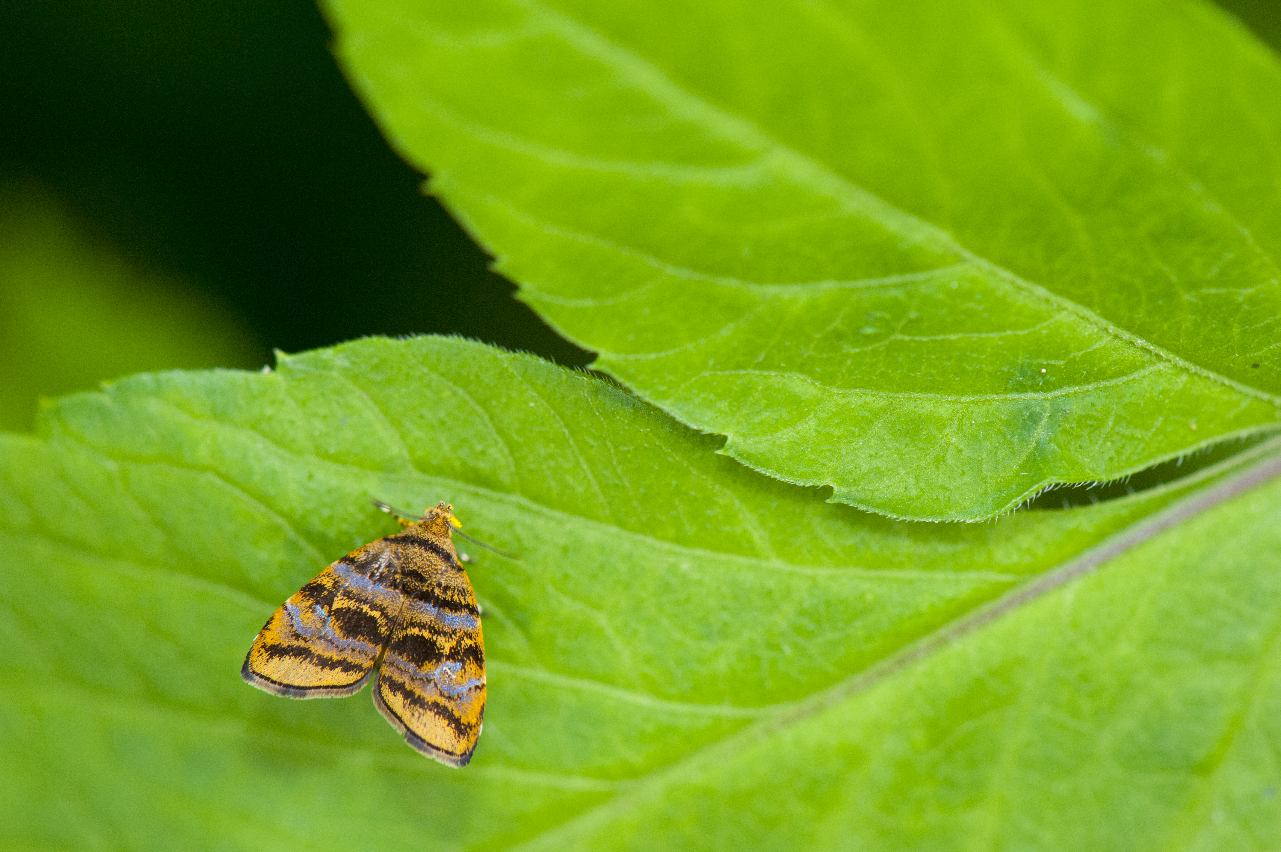 _DSK3117 Choreutis amethystodes